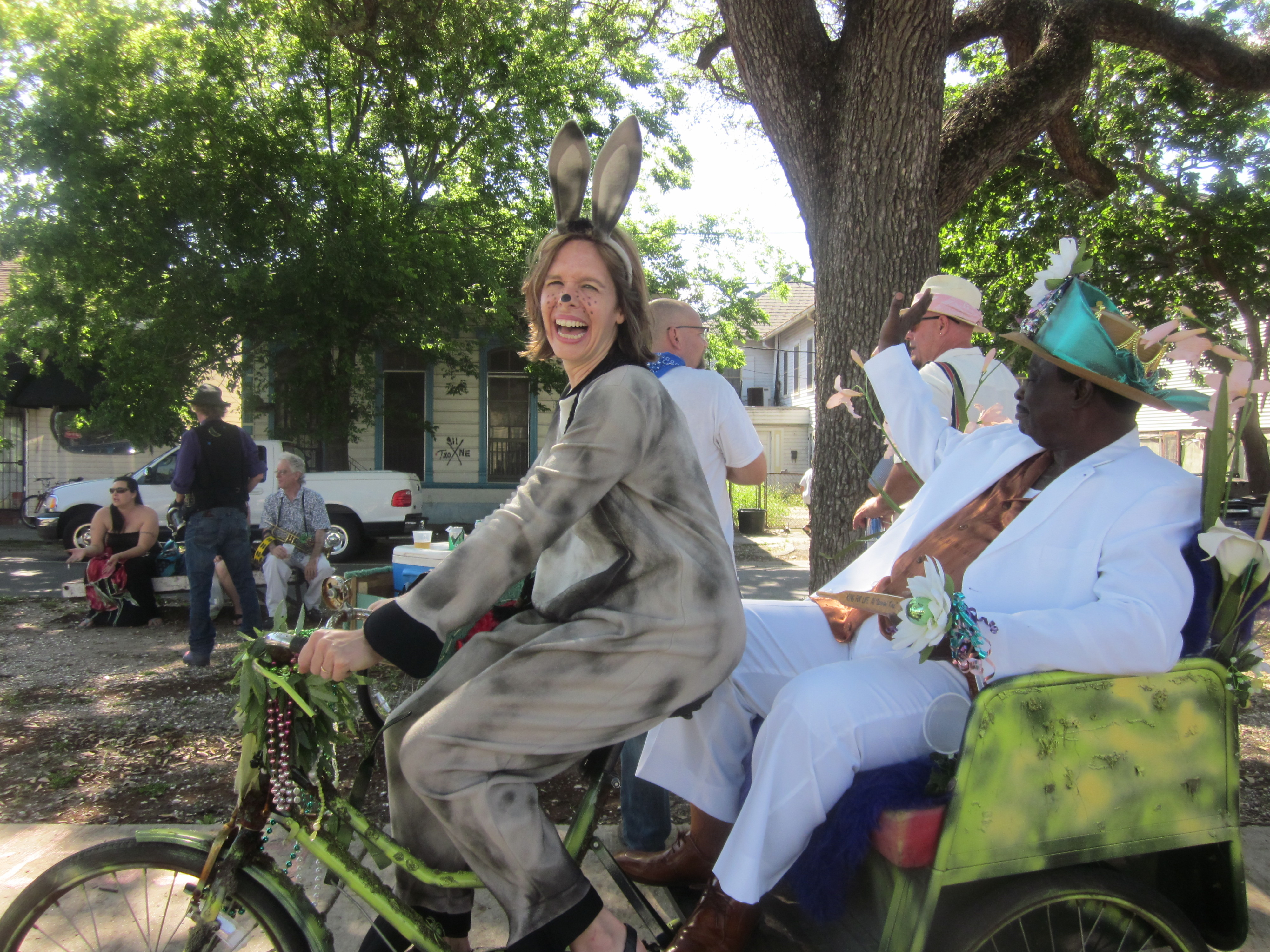 Goodchildren Social Aid & Pleasure Club Easter party and parade, St. Roch Avenue, New Orleans. Honorary "King for Life" Al "Carnival Time" Johnson rides in the seat of the royal tricycle.